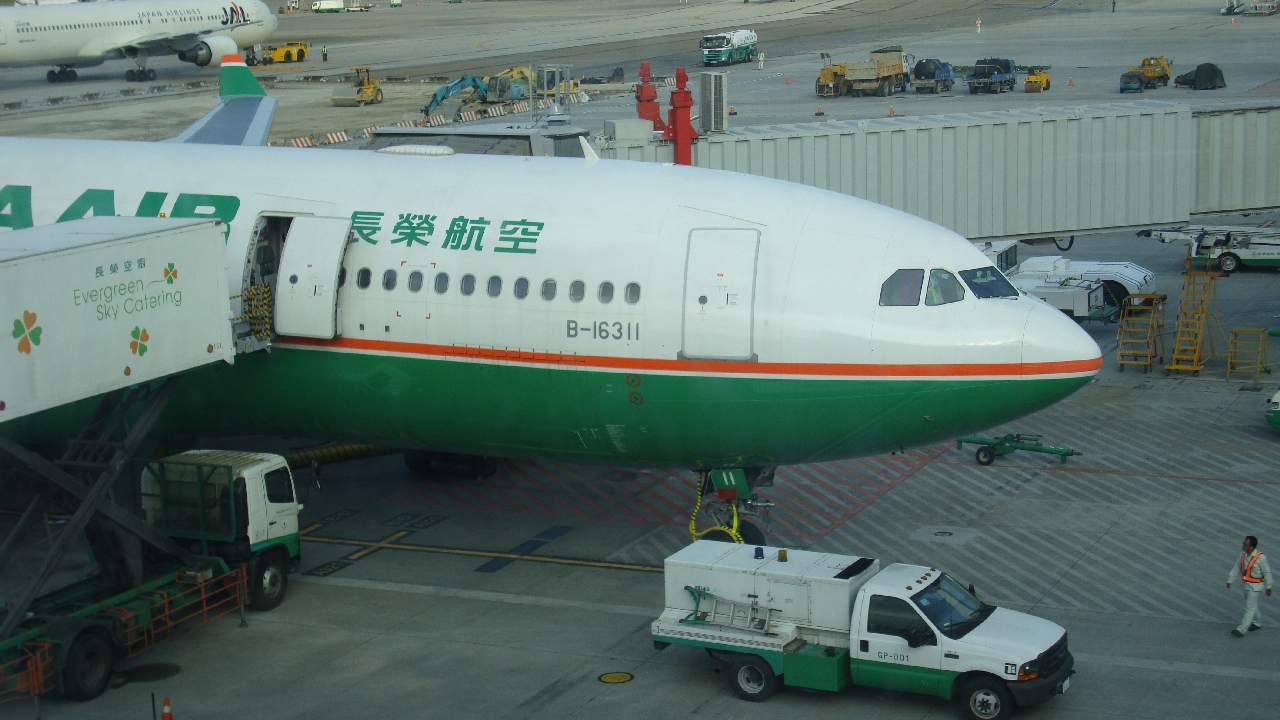 Evergreen Aviation AIRBUS A330 docked at the boarding gate 9 of the Songshan Airport for international flights